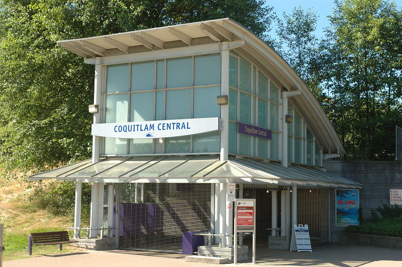 Entrance to the Coquitlam Central commuter rail station